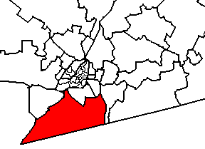 The Beauharnois—Salaberry riding| in relation to other ridings in south western Quebec.